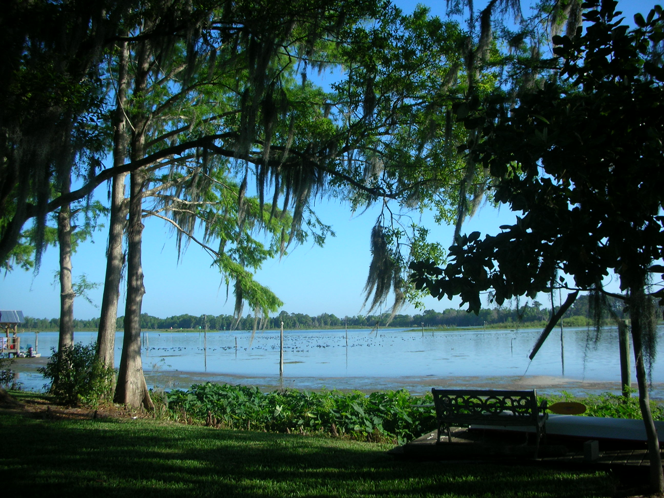 Lake Rousseau, Florida, USA. Photograph by Jonathan Bowen, 29 March 2007.